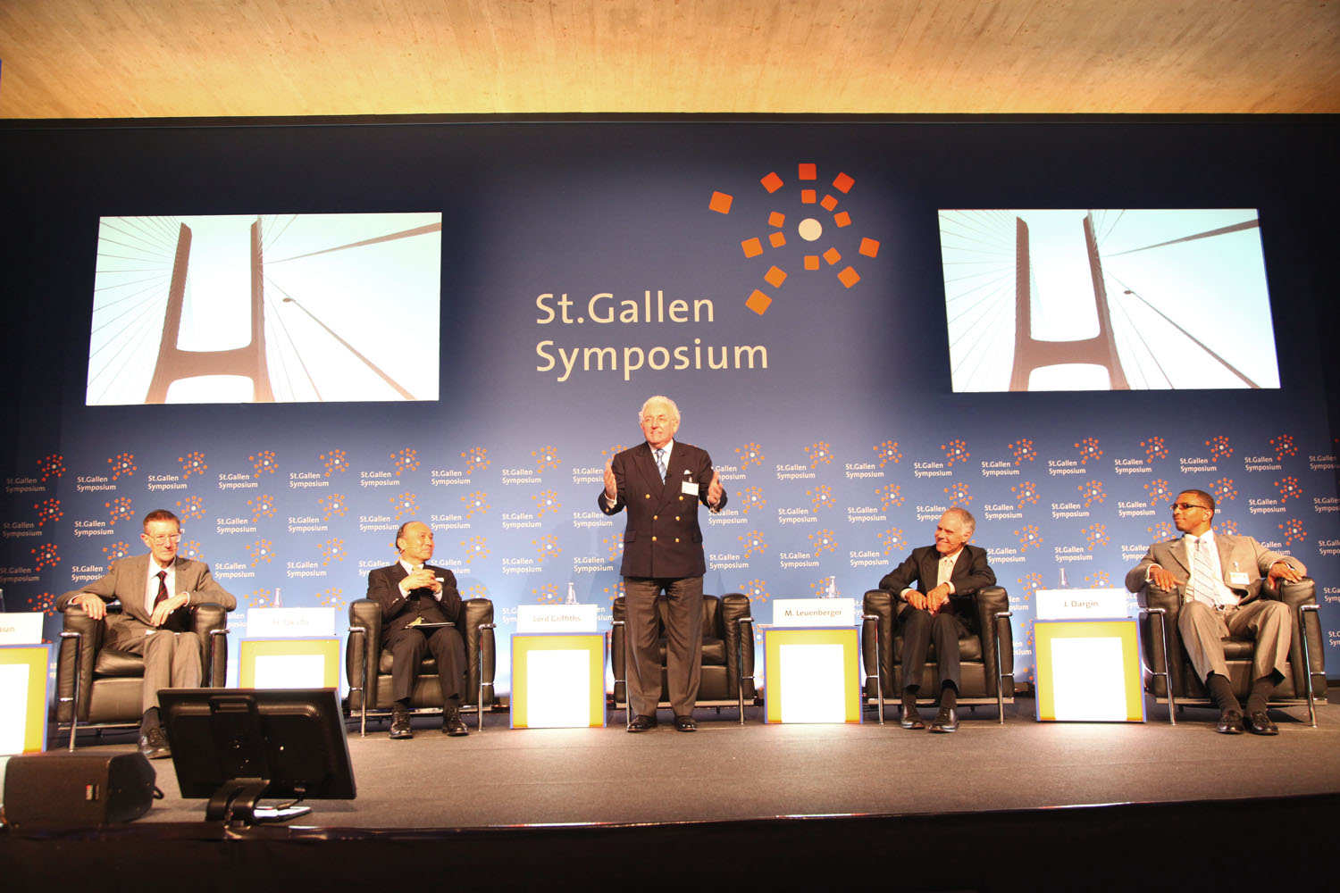 Plenary Session at the 41. St. GAllen Symposium with Lord Griffith of Fforestfack